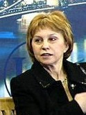 Marina Kudriavtseva at the 2004 European Figure Skating Championships